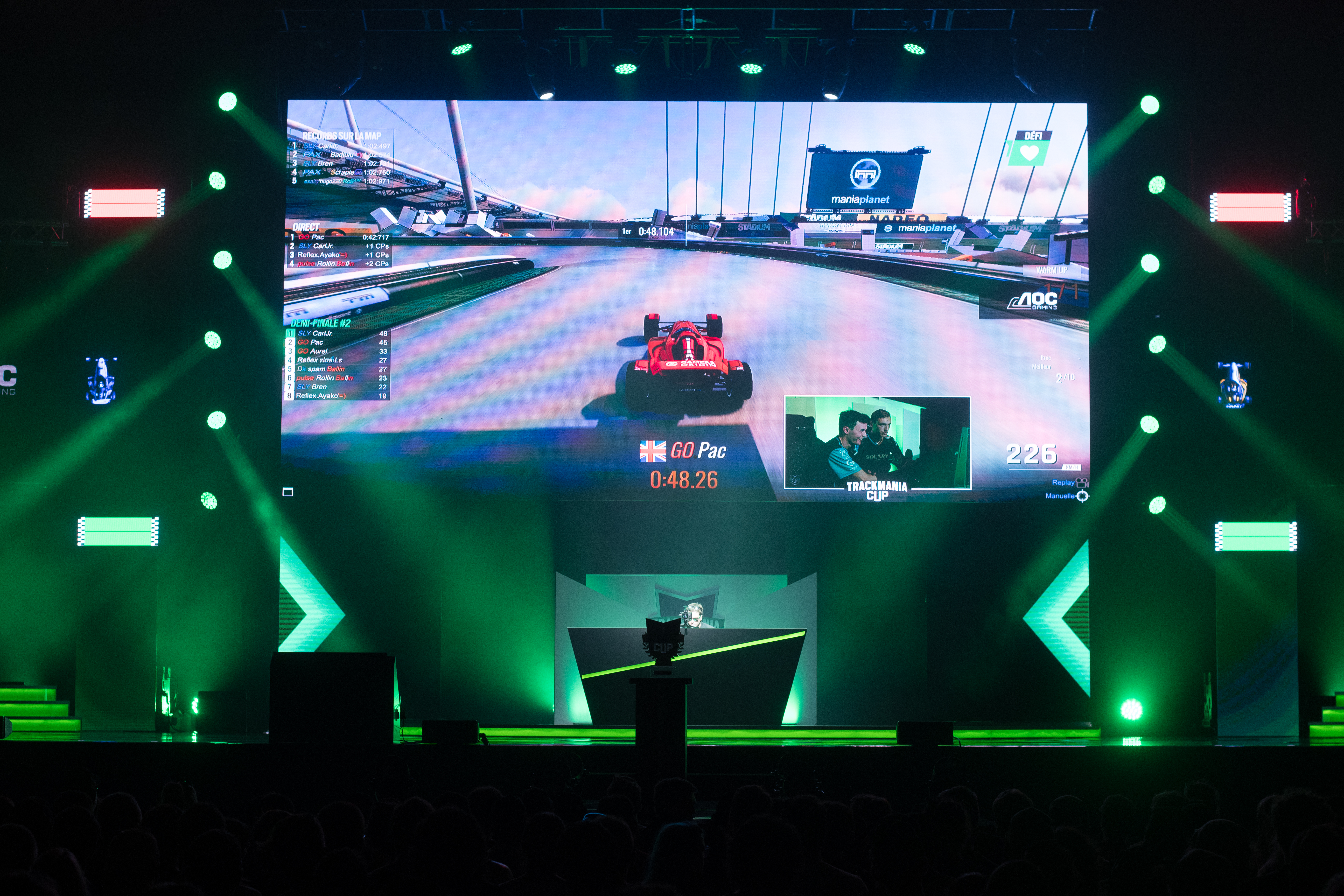 The stage of the ZrT TrackMania Cup 2019 at the Zénith de Strasbourg, France.